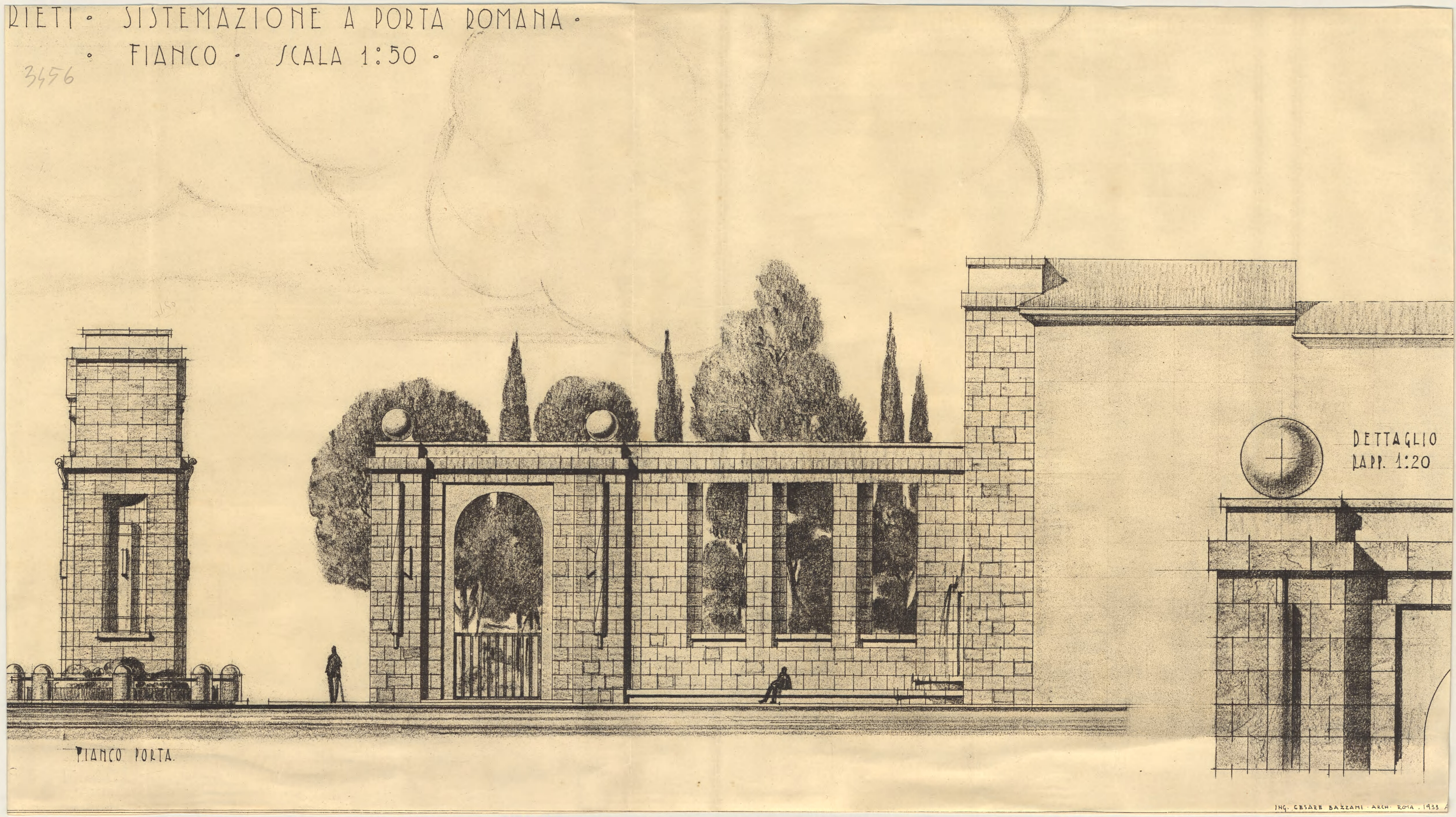 Drawing by Cesare Bazzani for the rearranging of Porta Romana city gate in Rieti (Lazio)